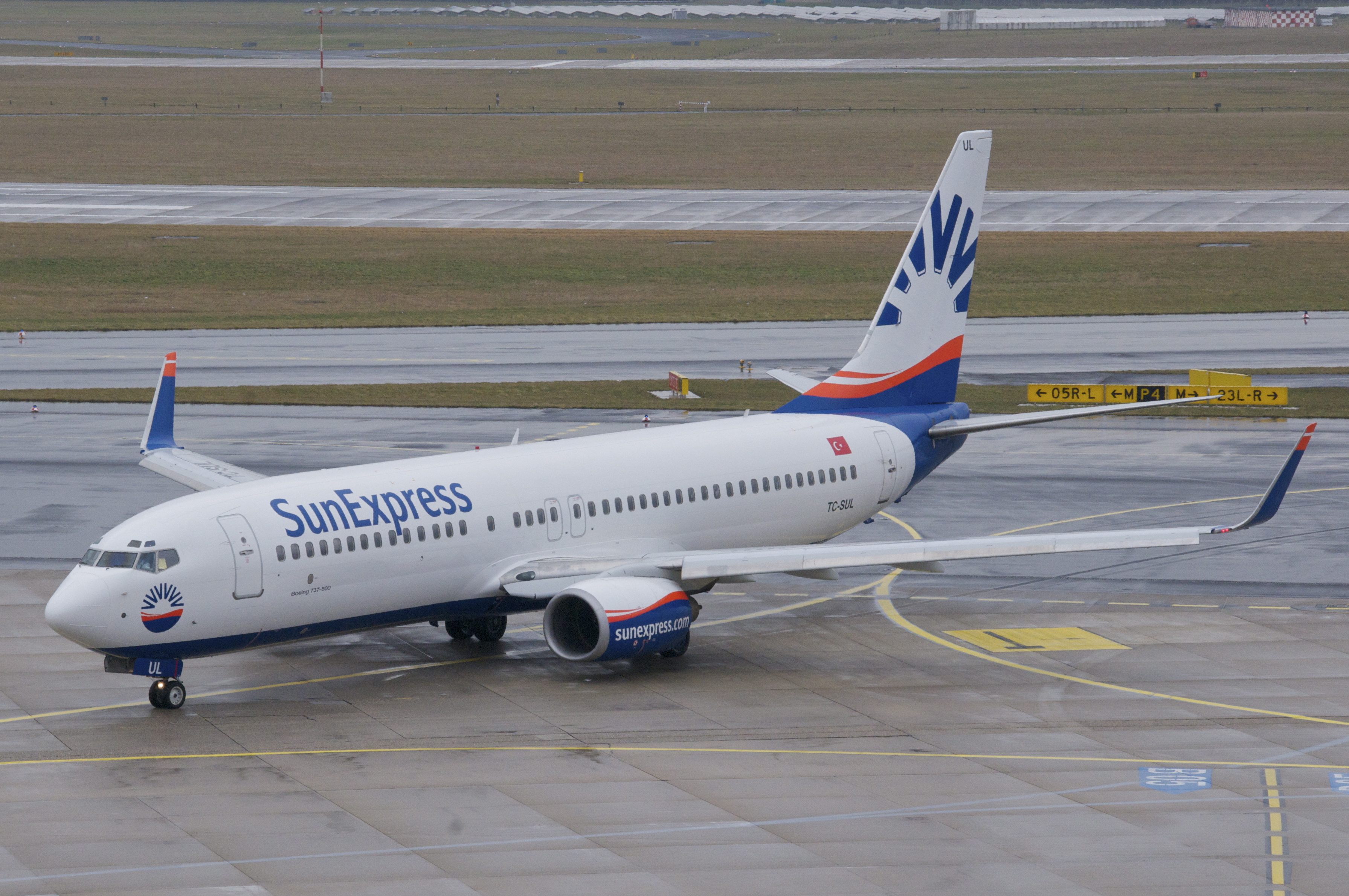 Great to see an eye-browed 737, it gives this aircraft a certain stern look! This Boeing 737-85F took its first flight on December 1, 1998...(c/n 28822/ 166) 07/12/1998 Boeing N1780B 20/01/1999 Novair SE-DVO 13/02/2004 SunExpress TC-SUL